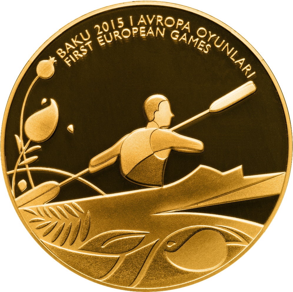 Commemorative coin of Azerbaijan